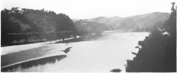 Photograph of the Muma River above the town of Xixiang (Hsihsiang), Shaanxi Province, China, about 1917